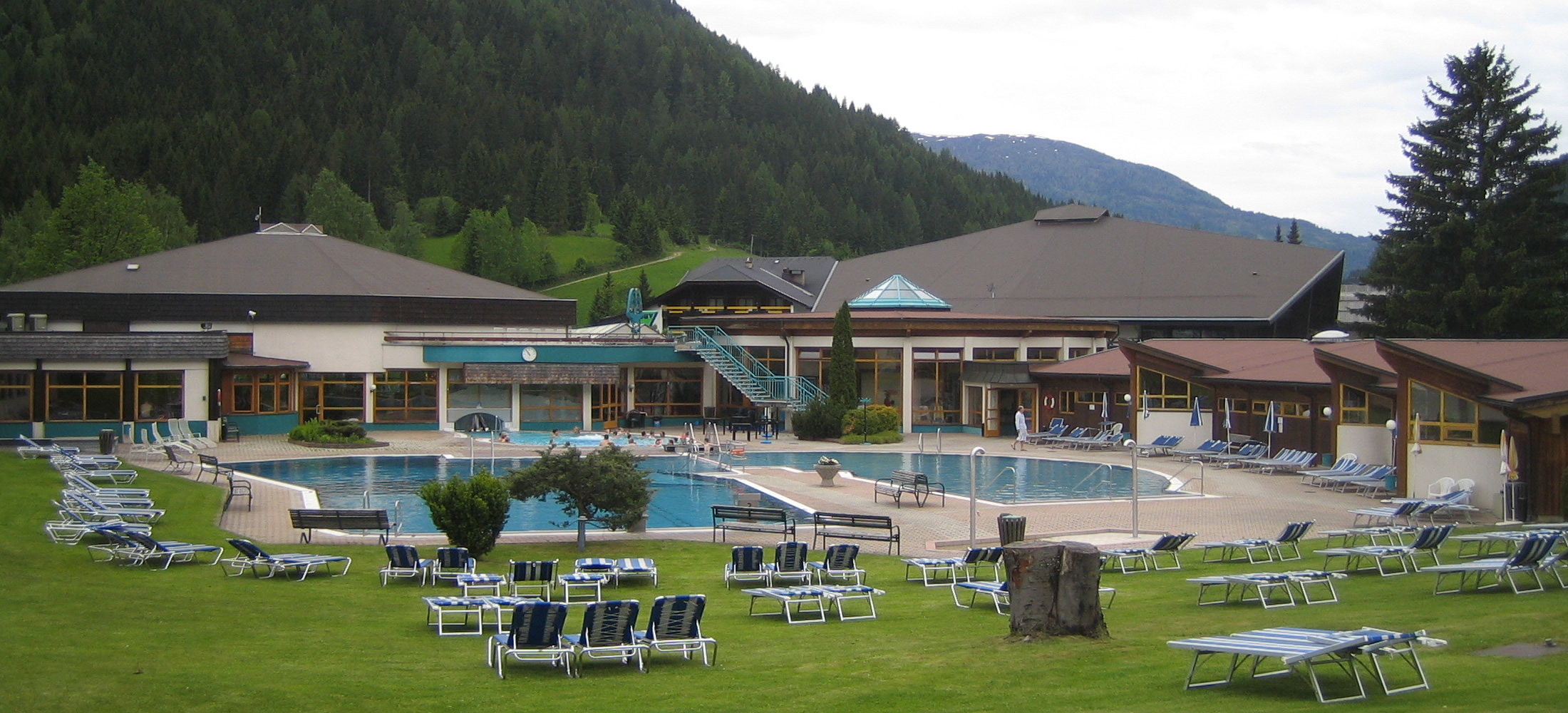 Thermae "St. Kathrein" in Bad Kleinkirchheim, Carinthia, Austria